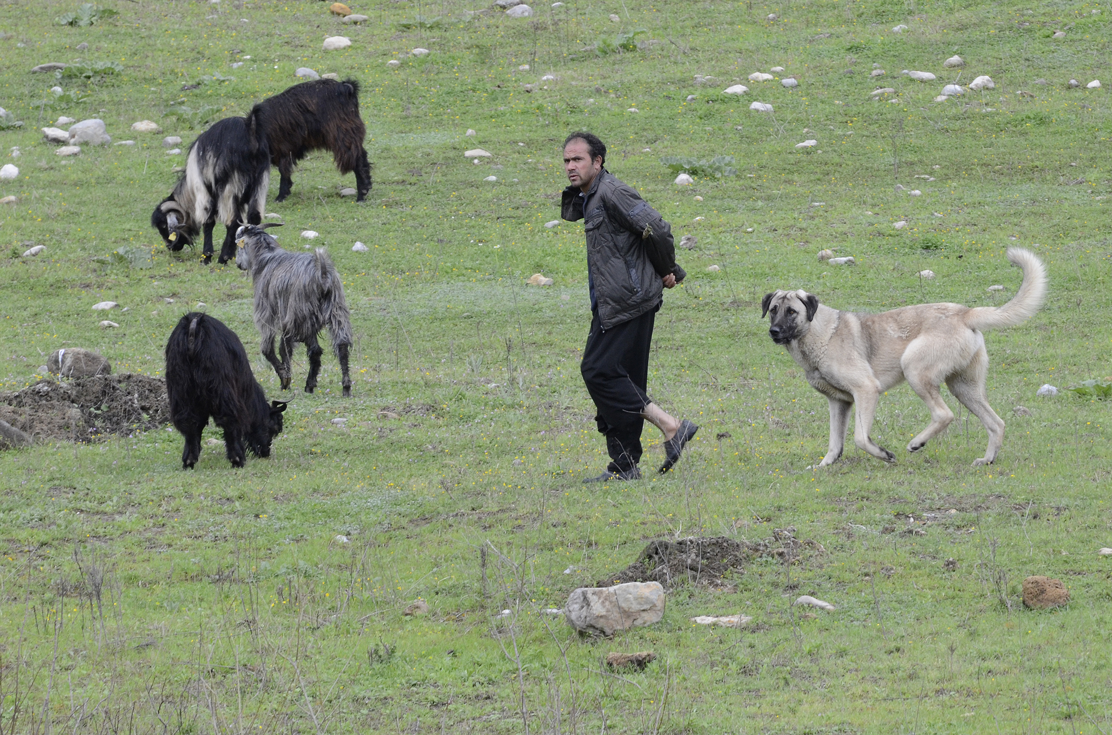 A goatherd and his dog (Anatolian shepherd dog) in Dağılcak, Kozan - Adana, Turkey.